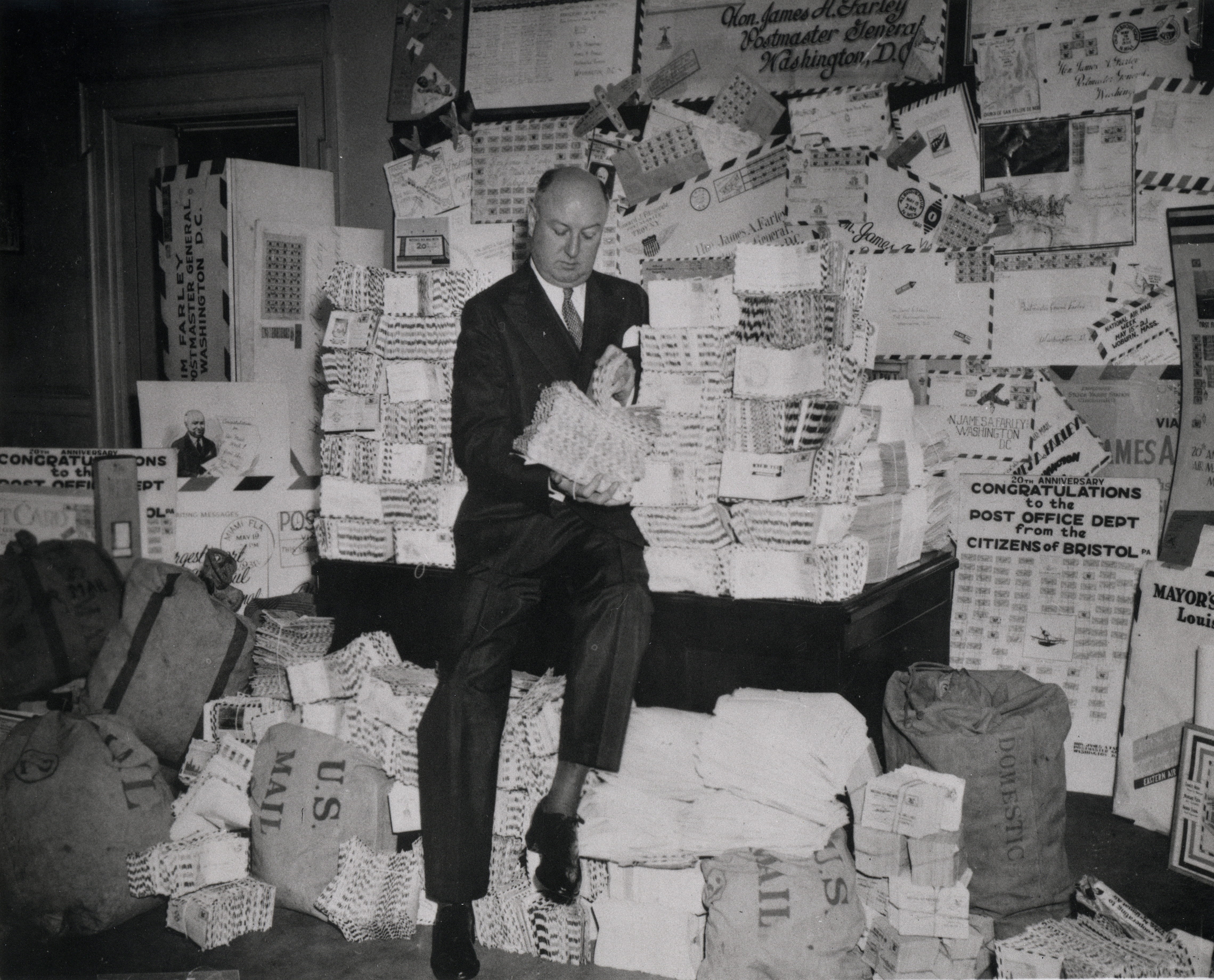 Description: Postmaster General James A. Farley is shown sitting with some of the hundreds of thousands of letters mailed during National Air Mail Week, May 15-21, 1938. The national celebration honored the 20th anniversary of the first regularly scheduled airmail service. President Franklin Roosevelt and his Postmaster General encouraged everyone to send an airmail letter during the week-long event. Creator/Photographer: Unidentified photographer Medium: Black and white photographic print Culture: American Geography: USA Date: 1938 Collection: U.S. Airmail Service Repository: National Postal Museum Accession number: A.2008-28